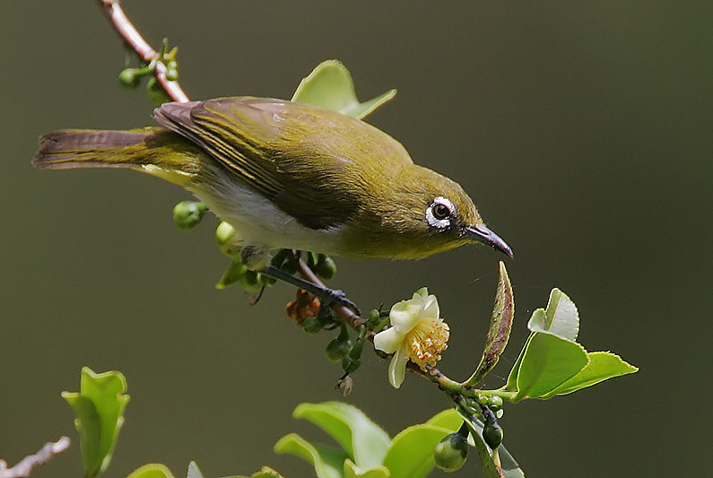 Though not as colourful as the (yellowish) Oriental white-Eye of the Sri Lankan lowlands this Highland endemic is still a charming wee bird. Image taken in Hakgala Botanical Gardens near Nuwara Eliya, Sri Lanka.